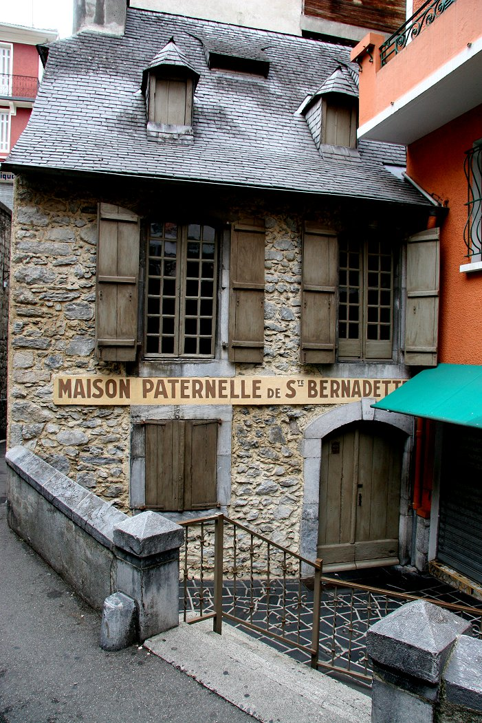 Sainte-Bernadette House